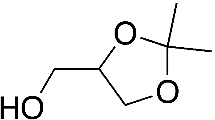 chemical structure of solketal